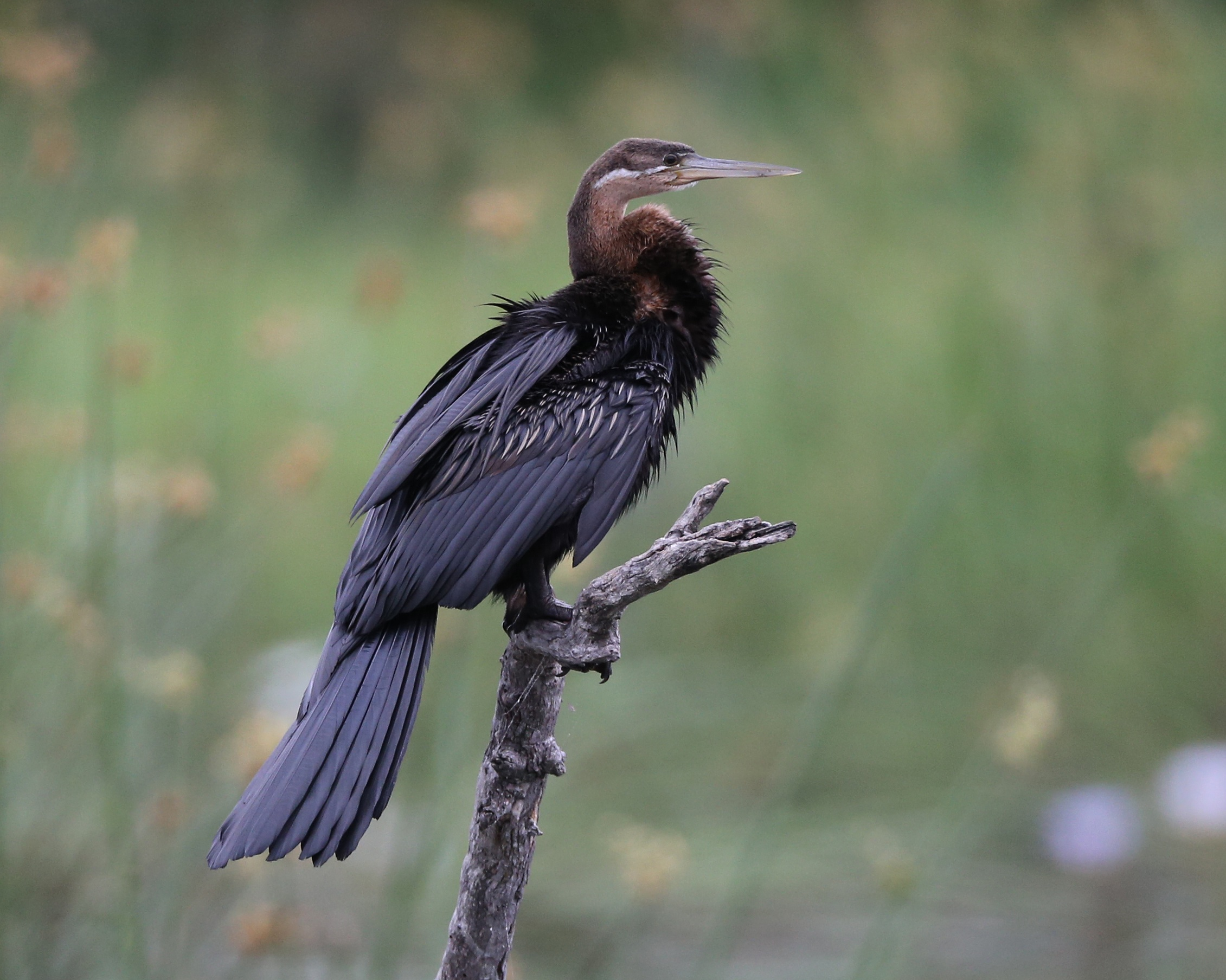 CF2P5226 African Darter (Anhinga rufa) in Botswana